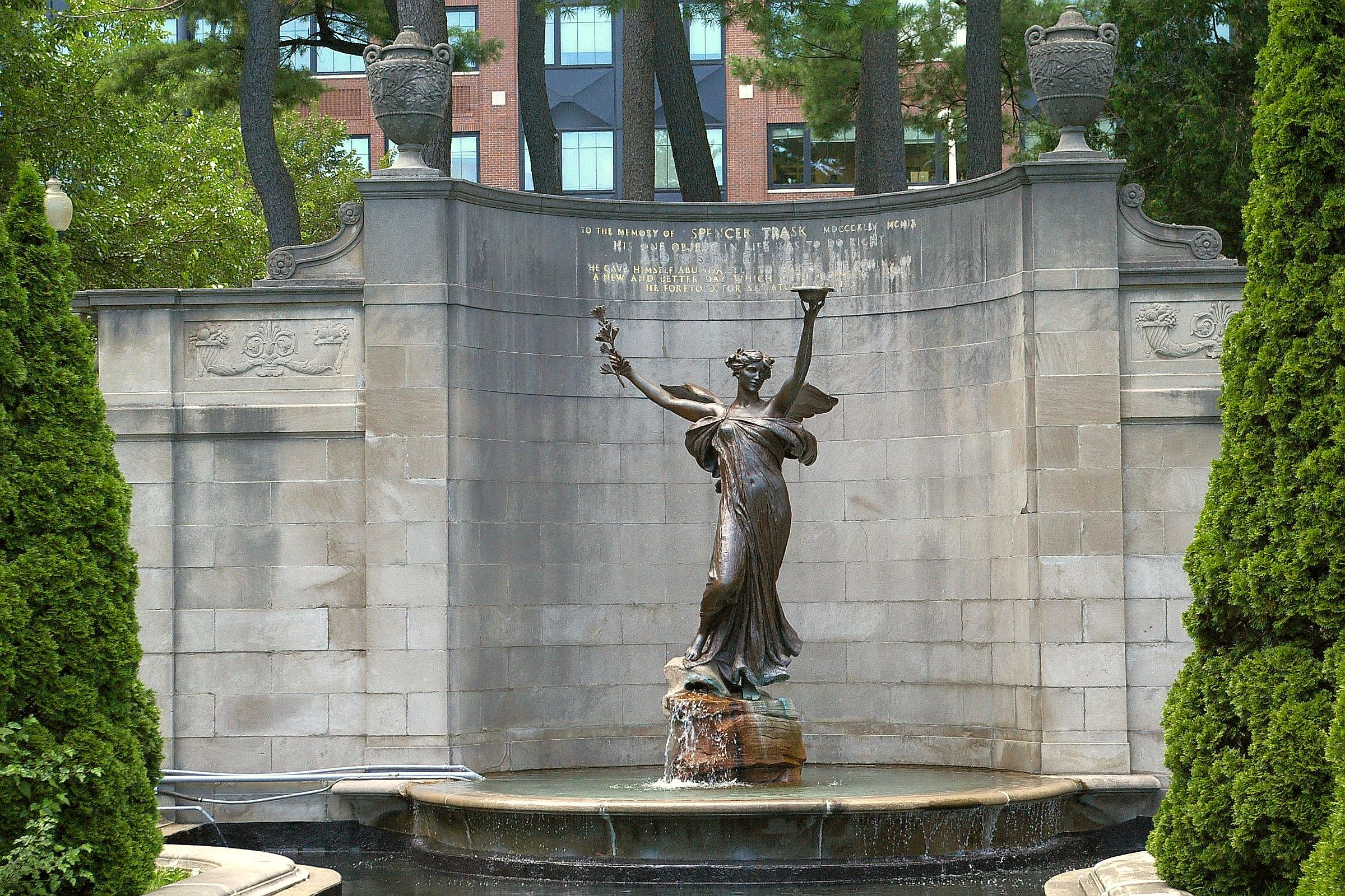 Memorial Fountain for Spencer Trask in Saratoga Springs